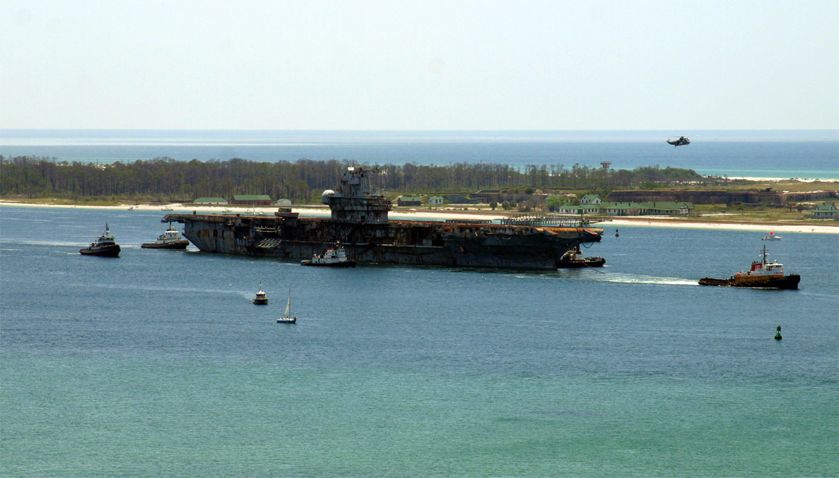 060515-N-0856O-323 Pensacola, Florida (May 15, 2006) - Guided by a flotilla of tugboats and small craft, the former U.S. Navy aircraft carrier USS Oriskany (CV-34) passes in front of Pensacola's historic Fort Pickens as the warship makes its way along the Intracoastal Waterway from its last port call at Naval Air Station Pensacola to its final destination in the Gulf of Mexico. It is planned that the ship will be scuttled 22 miles south of Pensacola in approximately 212 feet of water in the Gulf of Mexico, May 17, 2006, where it will become the largest ship ever intentionally sunk as an artificial reef. After the Oriskany reaches the bottom, ownership of the vessel will transfer from the United States Navy to the State of Florida. The public will be allowed to fish and dive on the ship two days later. Known as the "Big O," the 32,000-ton, 888-foot aircraft carrier was built at the New York Naval Shipyard and delivered to the Navy in 1950 where it later became a highly decorated veteran of the Korea and Vietnam conflicts.